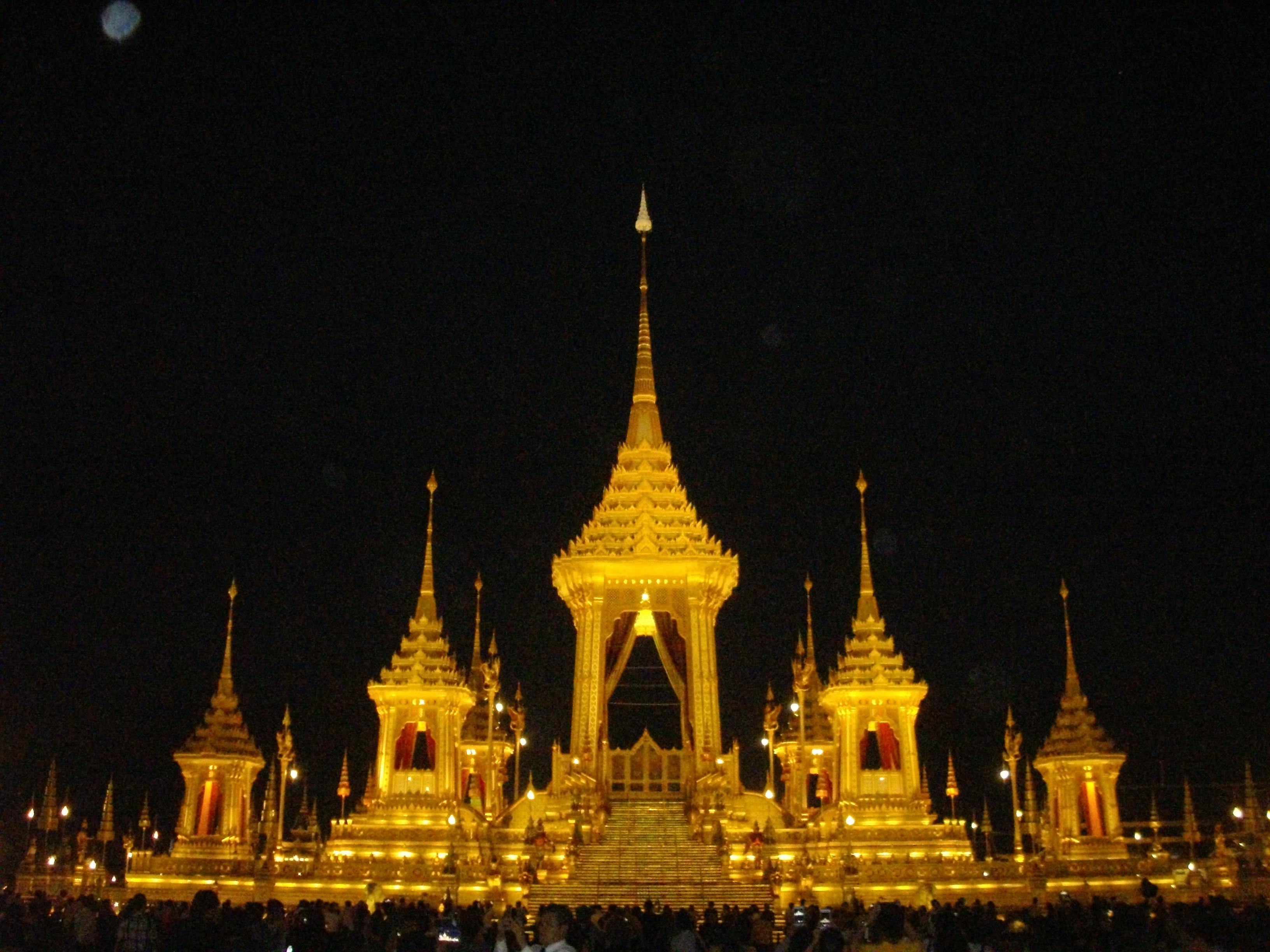 Royal crematorium of Bhumibol Adulyadej, as seen on November 2, 2017.